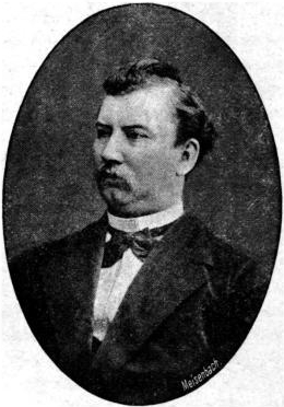 Hans Flach (1845–1895), German classical scholar